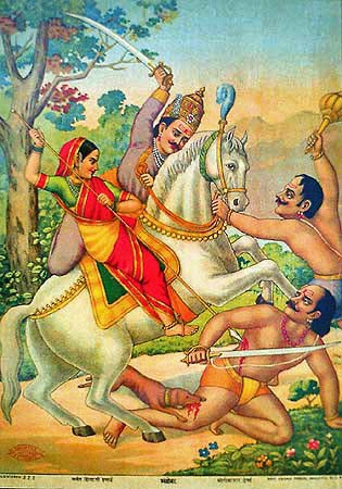 Khandoba and Mhalsa killing demons Mani-Malla Lithograph by Ravi Varma Press